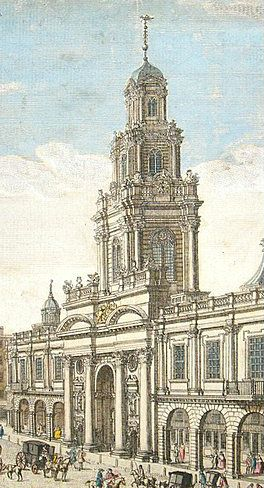 Cropped version of View of the Royal Exchange, London by Thomas Bowles, 1751. It is cropped to facilitate the comparison of Herne Bay Clock Tower with this earlier building, which has been said to have inspired the Clock Tower.